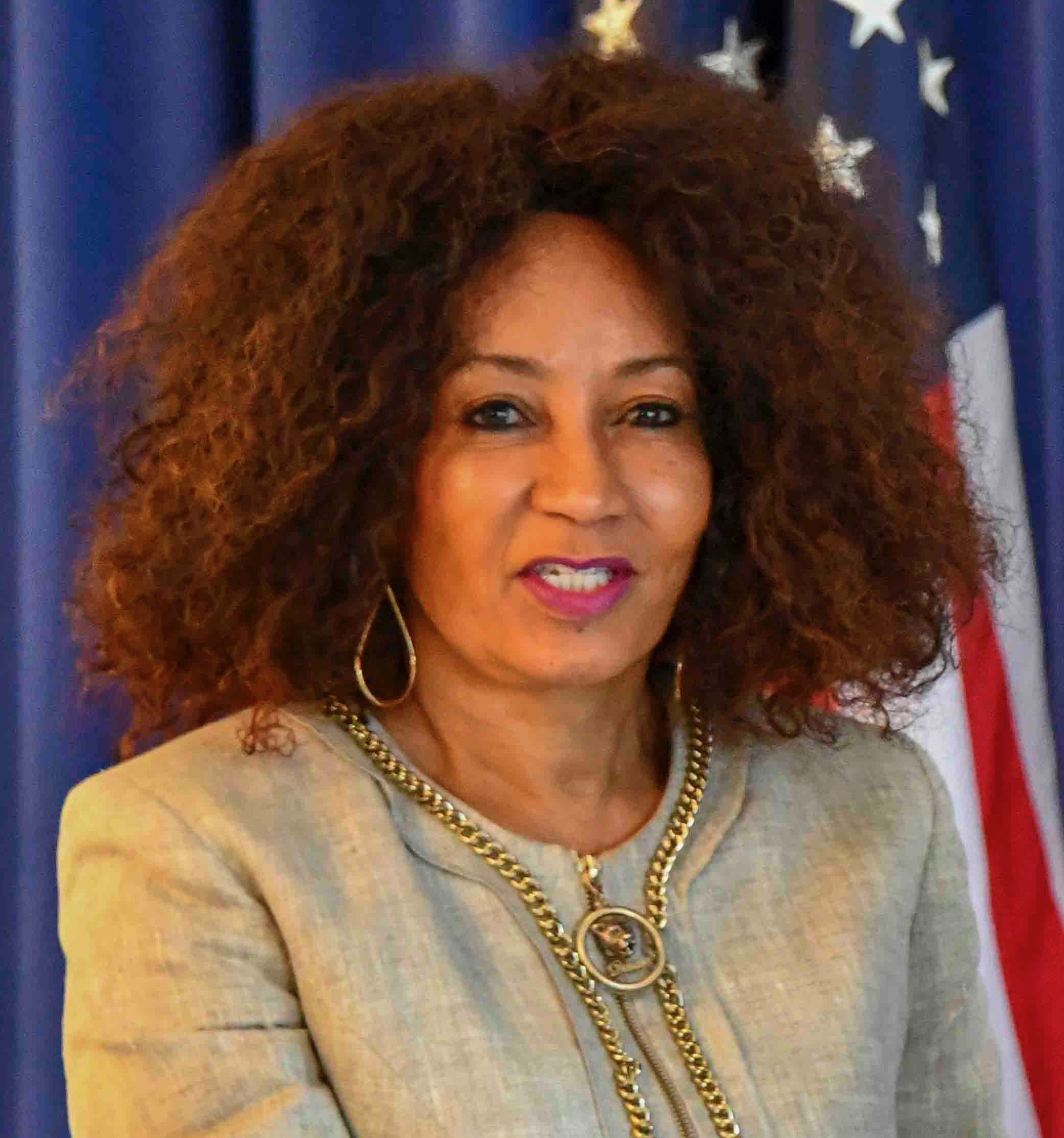 Secretary of State Michael R. Pompeo meets with South African Foreign Minister Lindiwe Sisulu, on the margins of the 73rd Session of the United Nations General Assembly, in New York City.